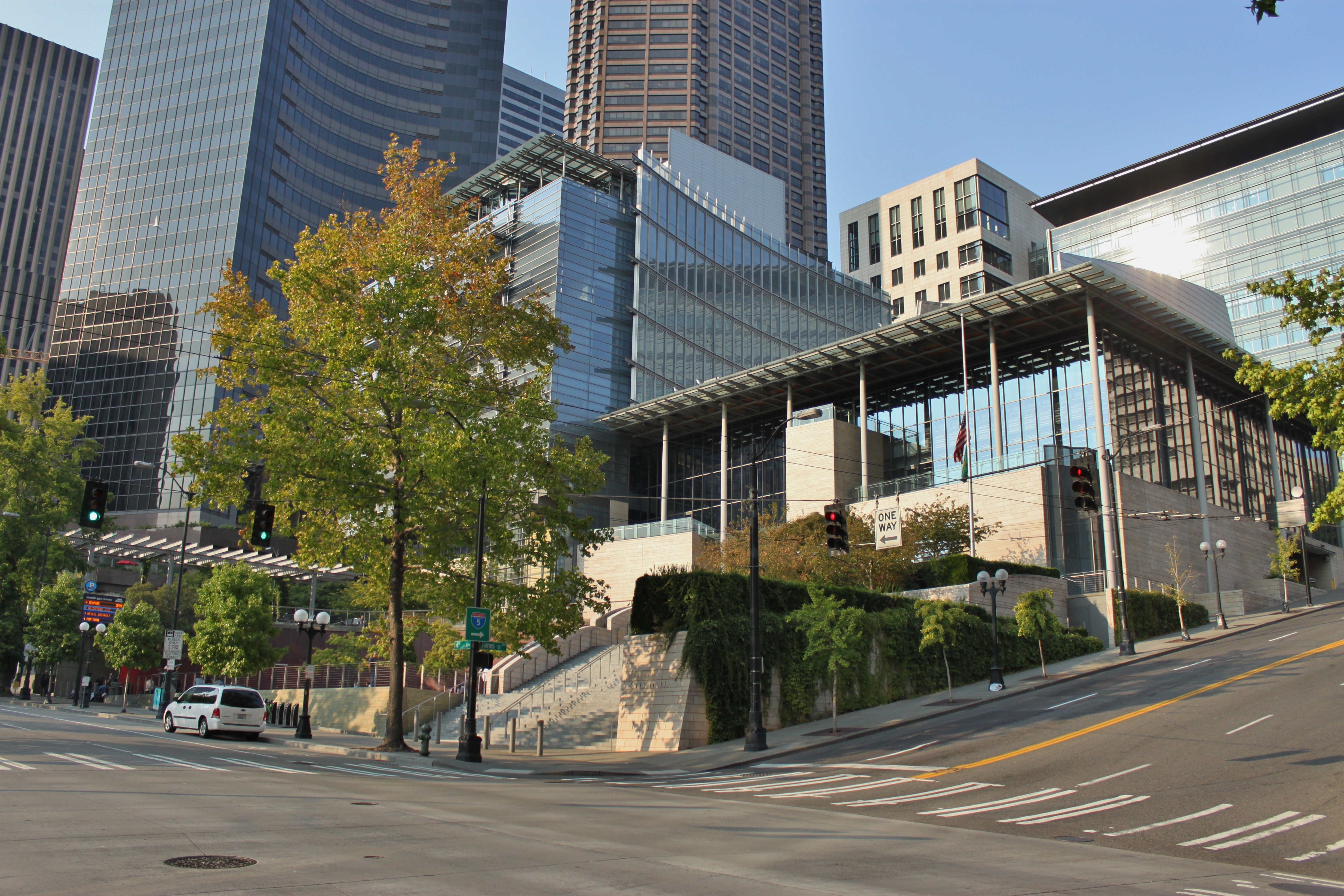 Seattle City Hall from 4th & James